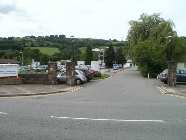 Entrance to Ystrad Mynach Hospital